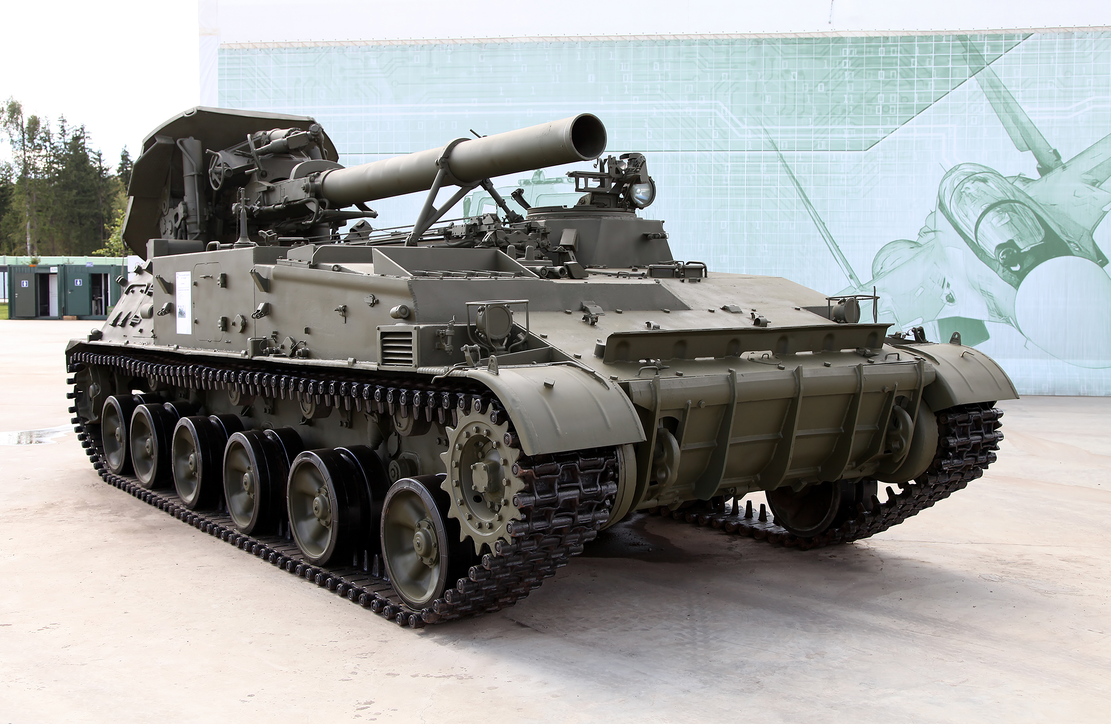 240mm self-propelled mortar 2S4 Tyulpan